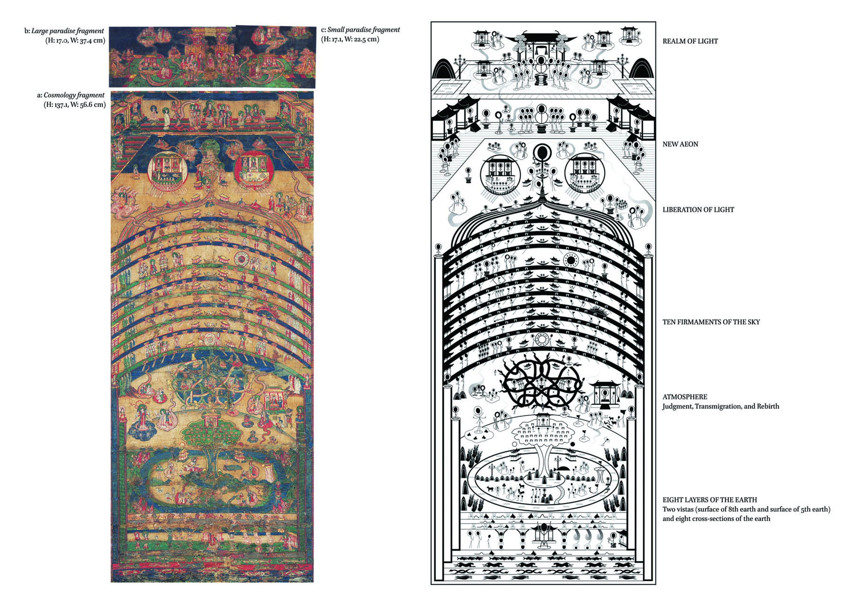 Picturing Mani’s Cosmology: An Analysis of Doctrinal Iconography on a Manichaean Hanging Scroll from 13th/14th-Century Southern China.